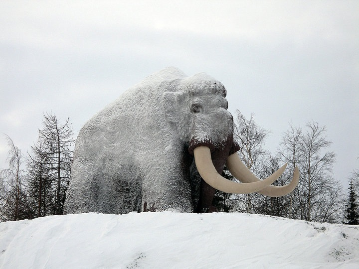 Mammoth monument in Salekhard city, Tumen region, Russia.